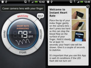 Instant Heart Rate are a software designed for smartphones. It uses the camera to detect the pulse from your fingertip – leveraging similar technique as used in pulse oximeters.